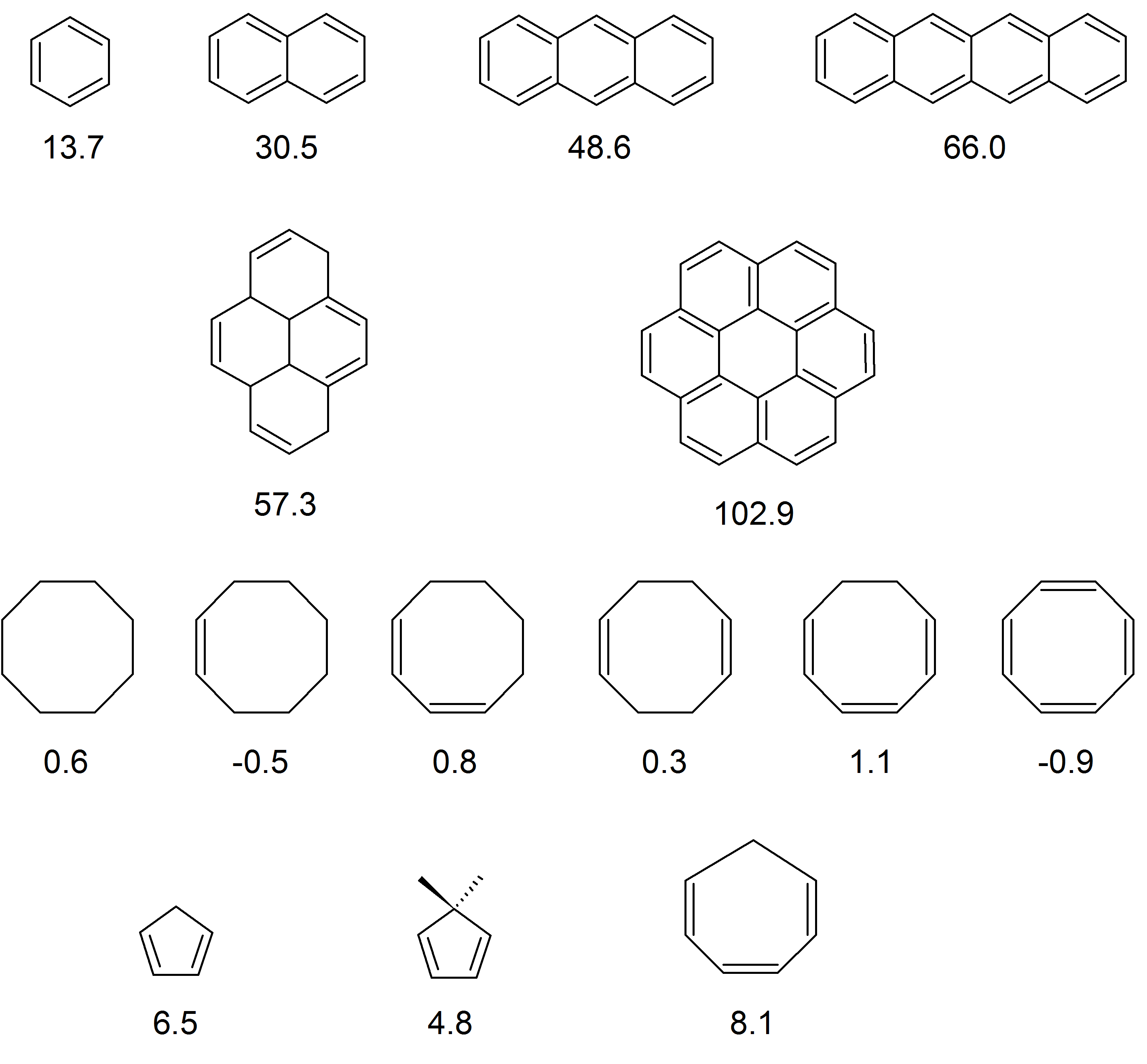 Magnetic susceptibility exaltations (Λ values) in –10–6 cm3/mole according to